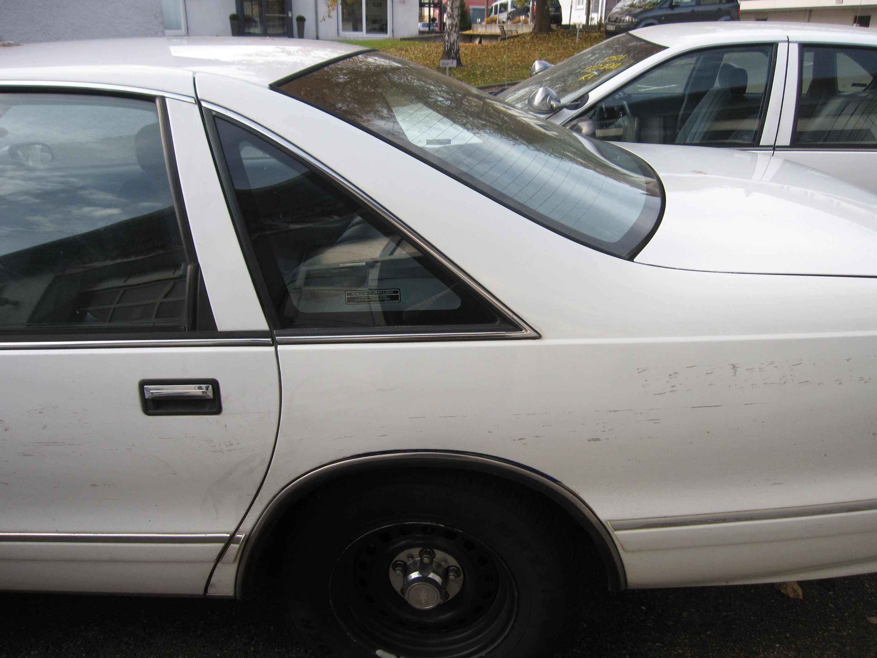 Same window was used on 1991 and 1992 with different rear weel well opening